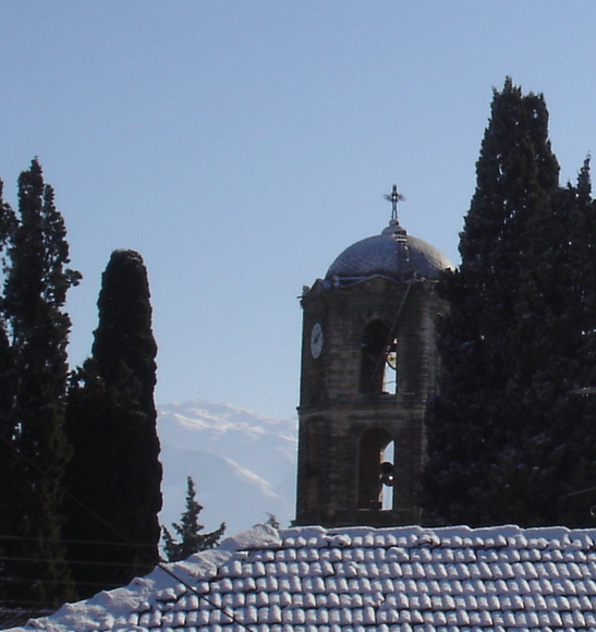 The belfry in Agios Athanasios church, Alistarti, Serres